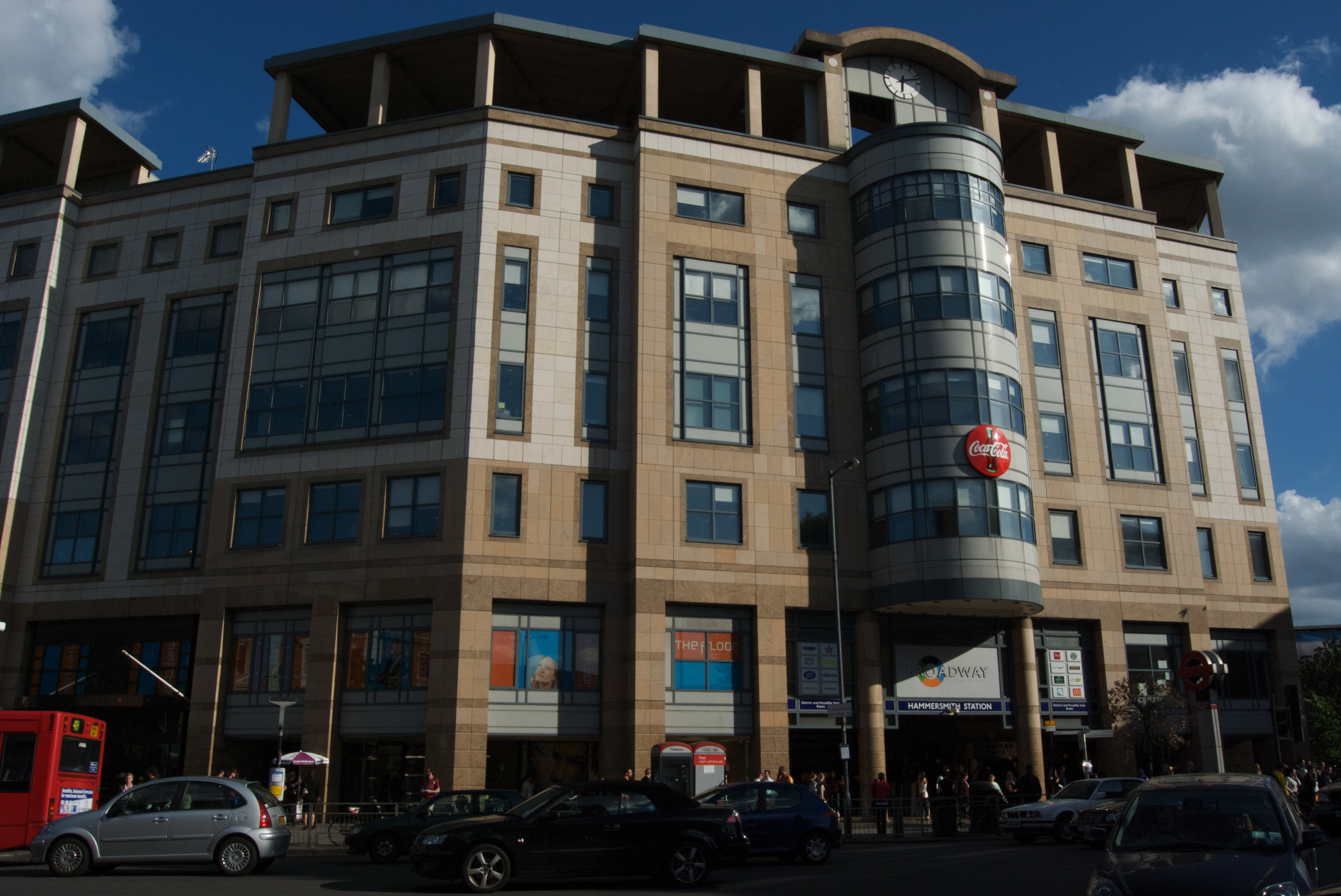 Hammersmith Broadway exterior, front